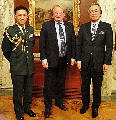 (From the right) Japanese Ambassador to Sweden Seiji Morimoto, Defense Attachés Col. Hiroshige Uchiyama, and Swedish Defense Minister Peter Hultqvist.